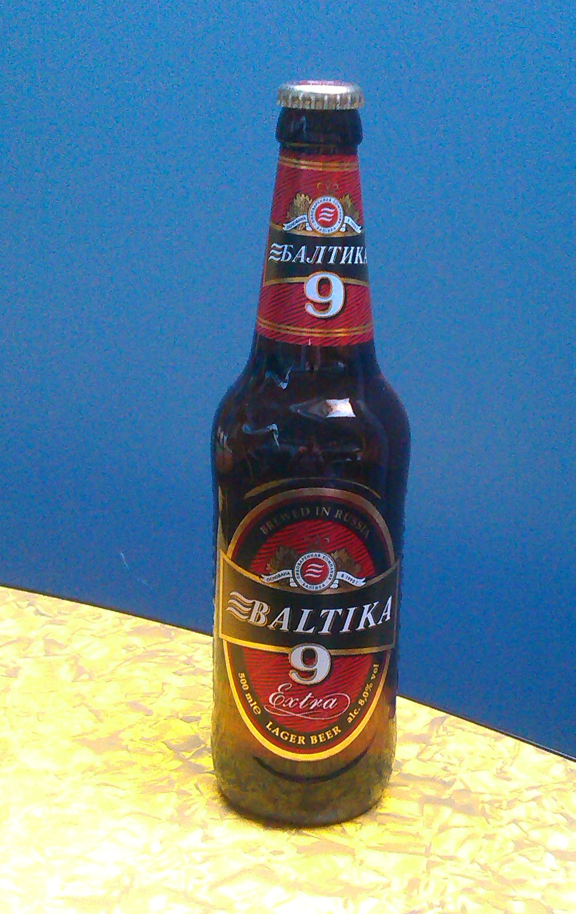 A Baltika 9, Extra Strong beer.